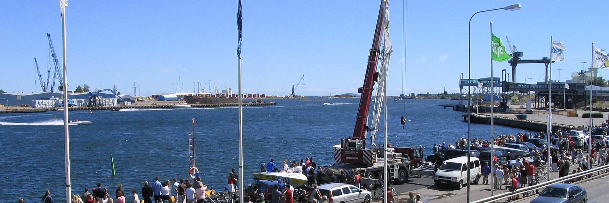 Port of Oskarshamn in the south-east of Sweden, Europe.